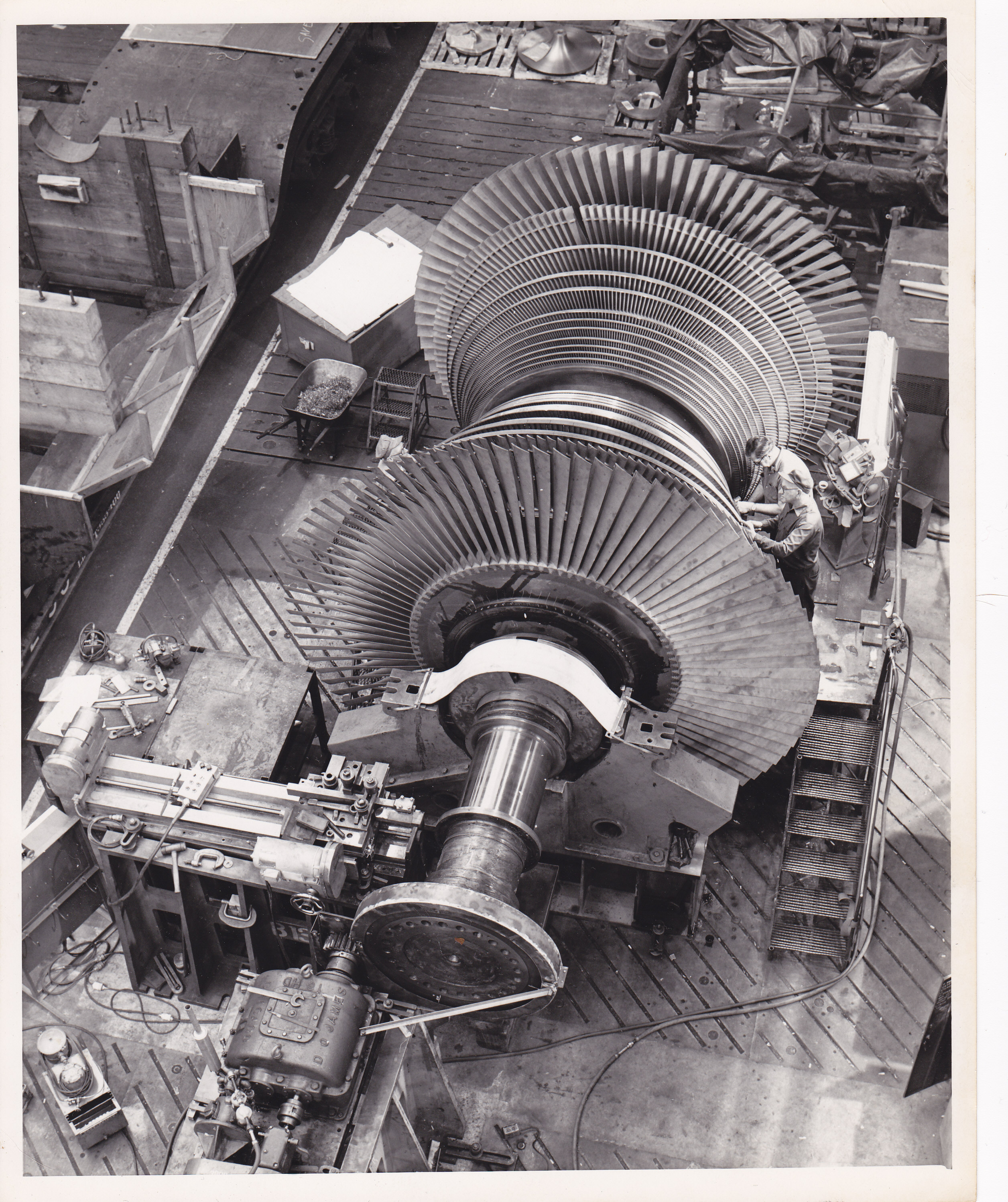 Allis Chalmers inserting steam turbine blades